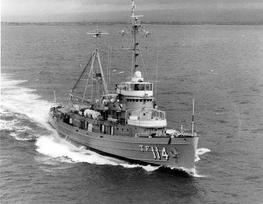 Tawakoni (ATF-114) underway, date and place unknown. U.S. Navy photo.